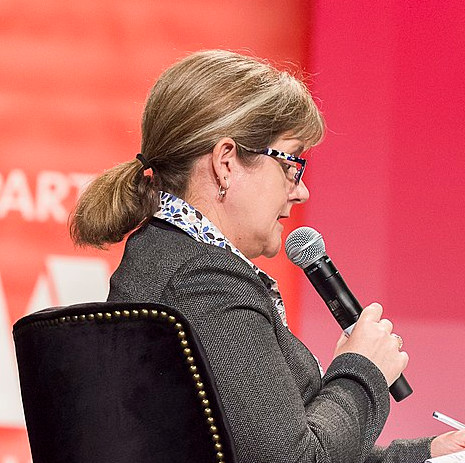 Marguerite Evans-Galea AT CEBIT